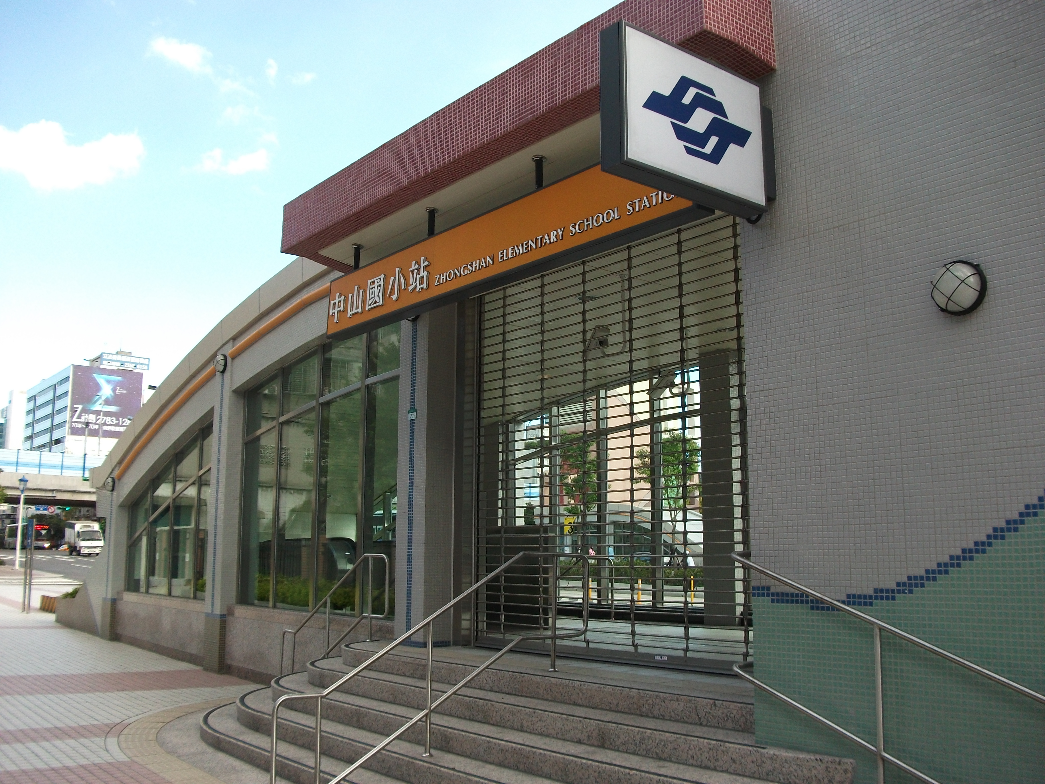 Taipei Metro Orange Line Zhongshan Elementary School Station entrance 4